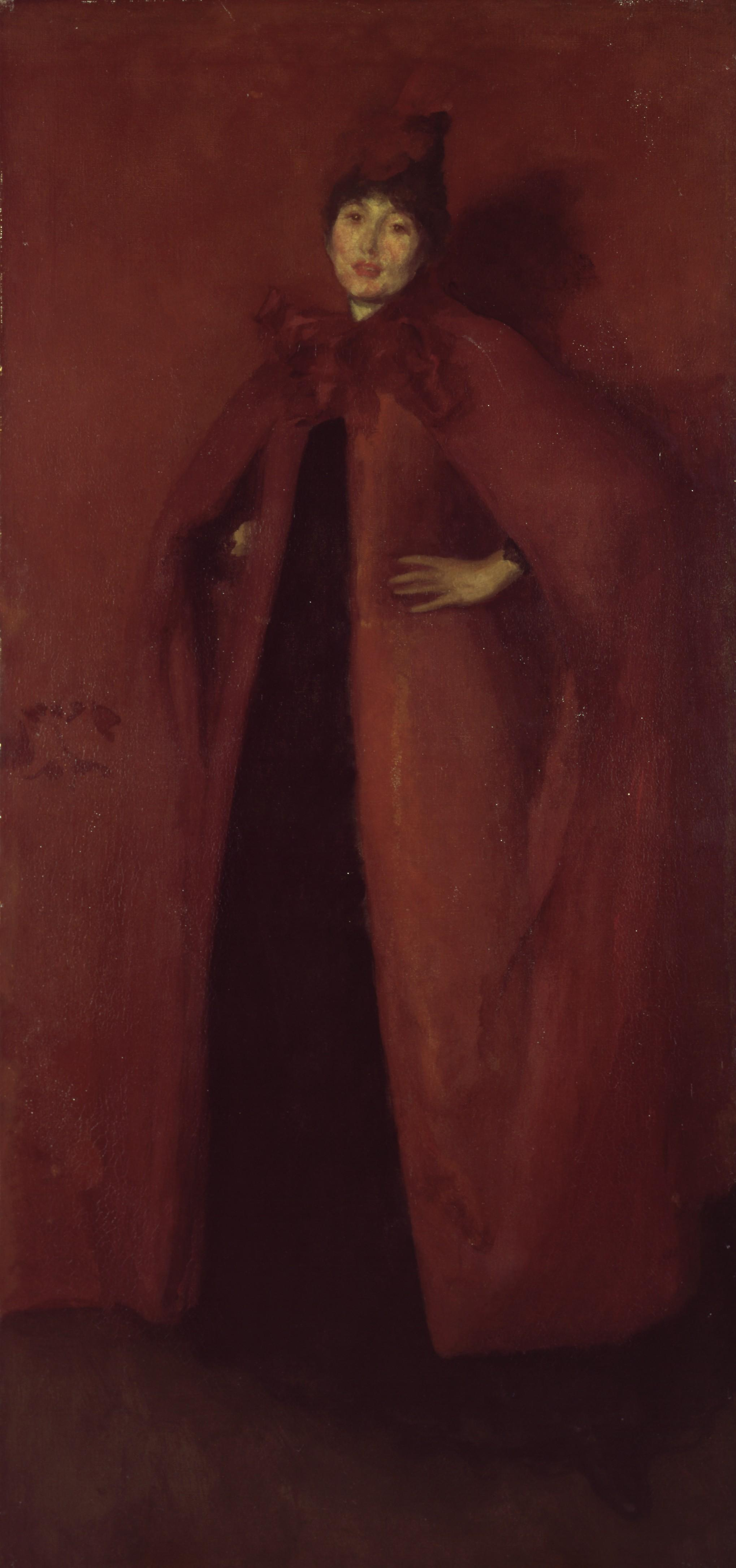 "Harmony in Red: Lamplight" 1884-1886 WHISTLER, James McNeill; 1834-1903) model Beatrix Whistler